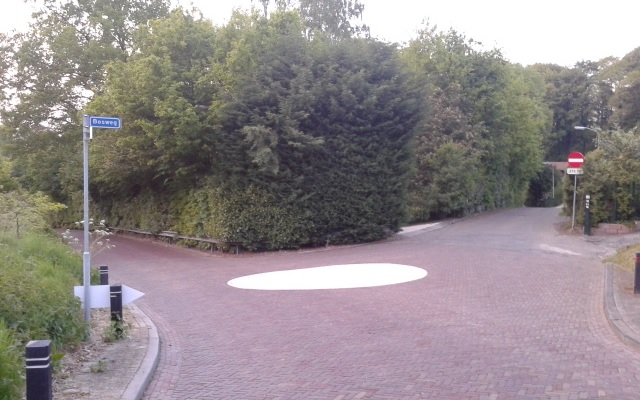 Crossing Nieuwe Holleweg/Bosweg in Beek-Ubbergen